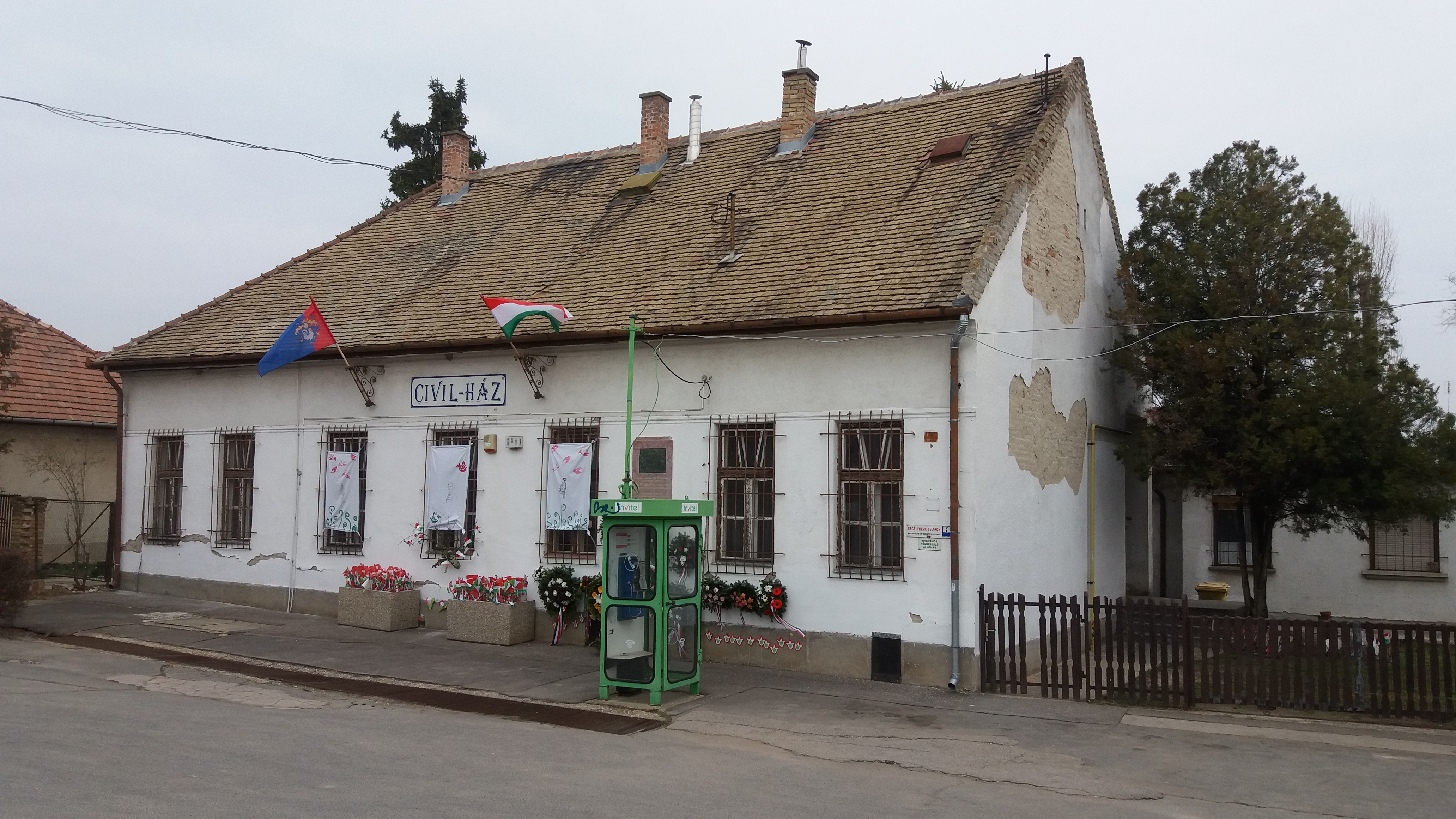 Society House in Kistarcsa